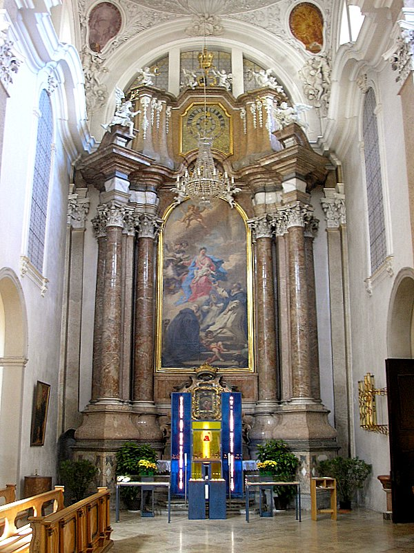 St. Mang's Abbey, Füssen (Fuessen, Bavaria, Germany). Northern transept